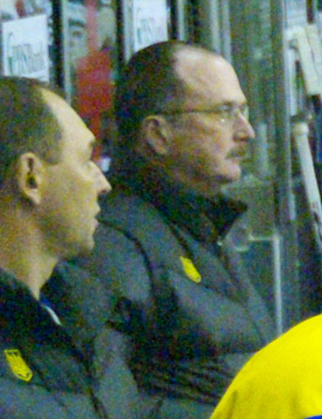 Dave Lewis as coach of Ukraine - EIHC Tournament in Sanok (Poland), 2010 September 11, Ukraine - Russia 0:7